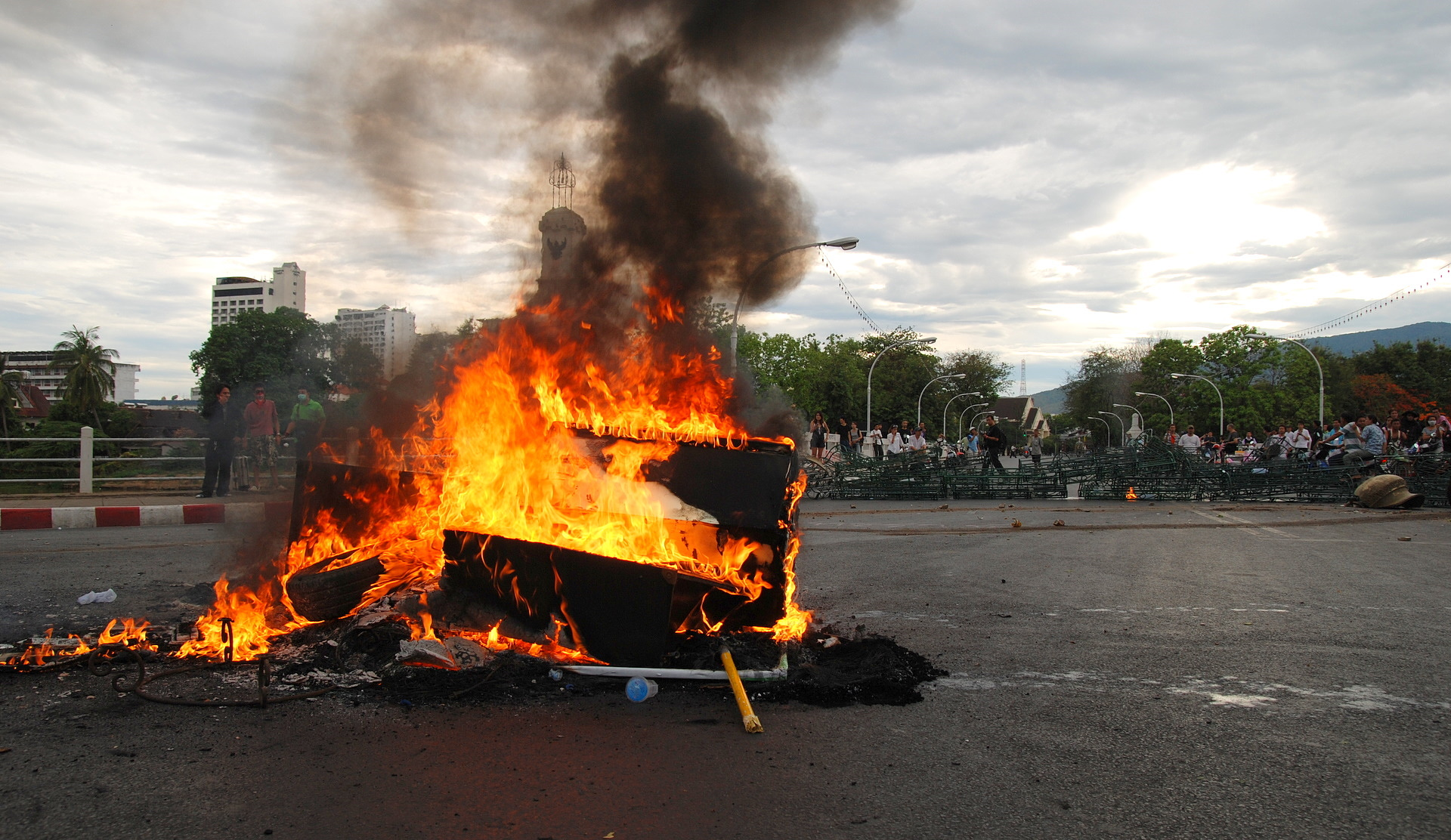 One of the fires, which had been started on and around Naowarat bridge in Chiang Mai and at the entrances to the governor's residence, is still kept burning hours later by "red shirt" protesters.